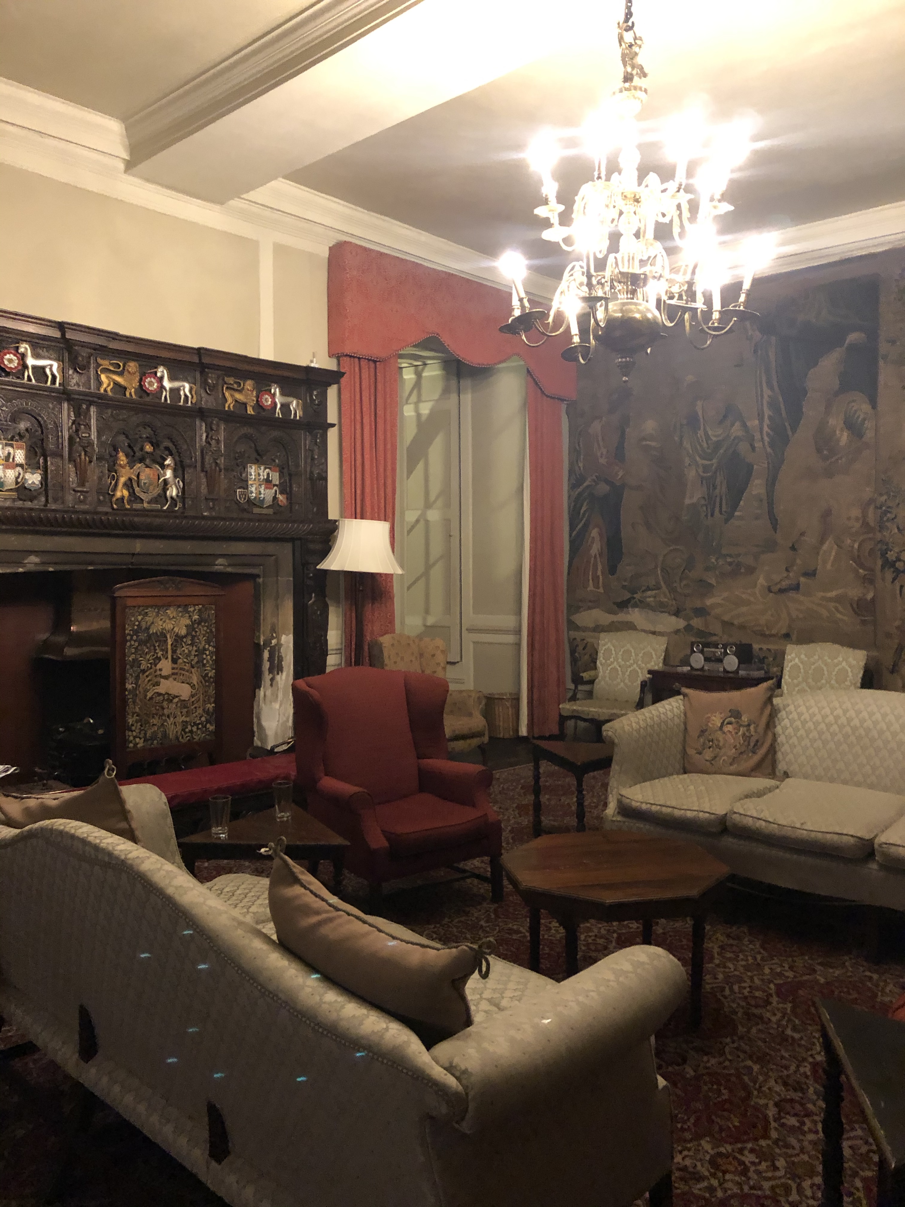 This is the SCR (Senior common room) of University College Durham, housed in the senate suite of Durham Castle.